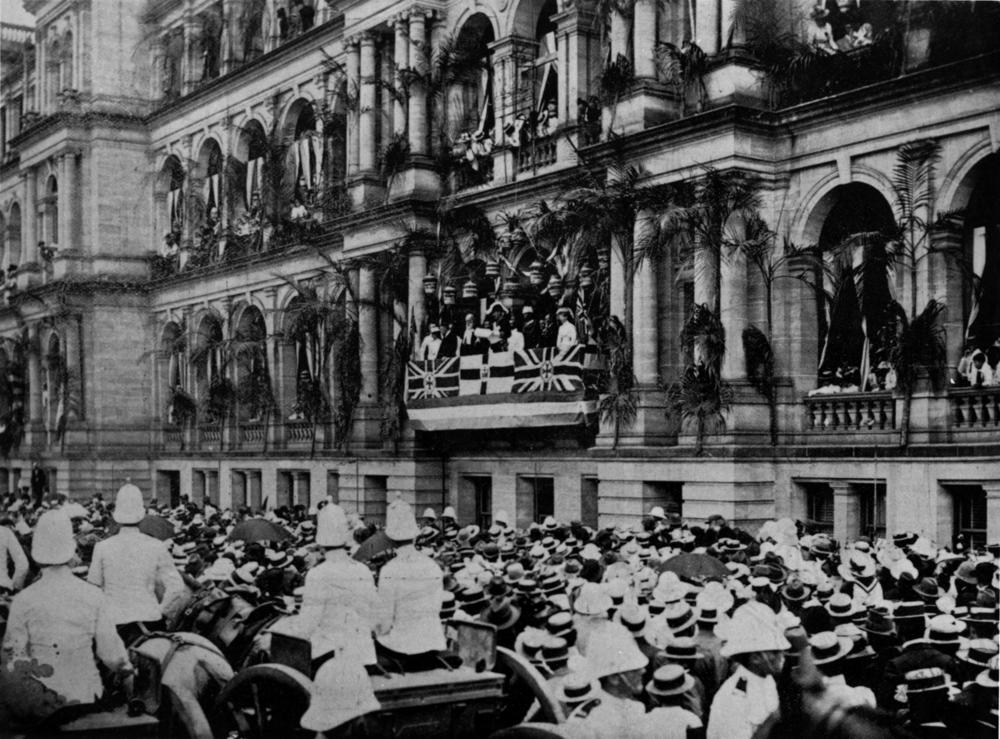 Crowds of people outside the Treasury Building, Queen Street, Brisbane, Queensland, 1901 Crowds gather to listen to his Excellency the Governor reading the Queen's proclamation on Federation from the balcony of the Treasury Building in Queen Street, Brisbane.